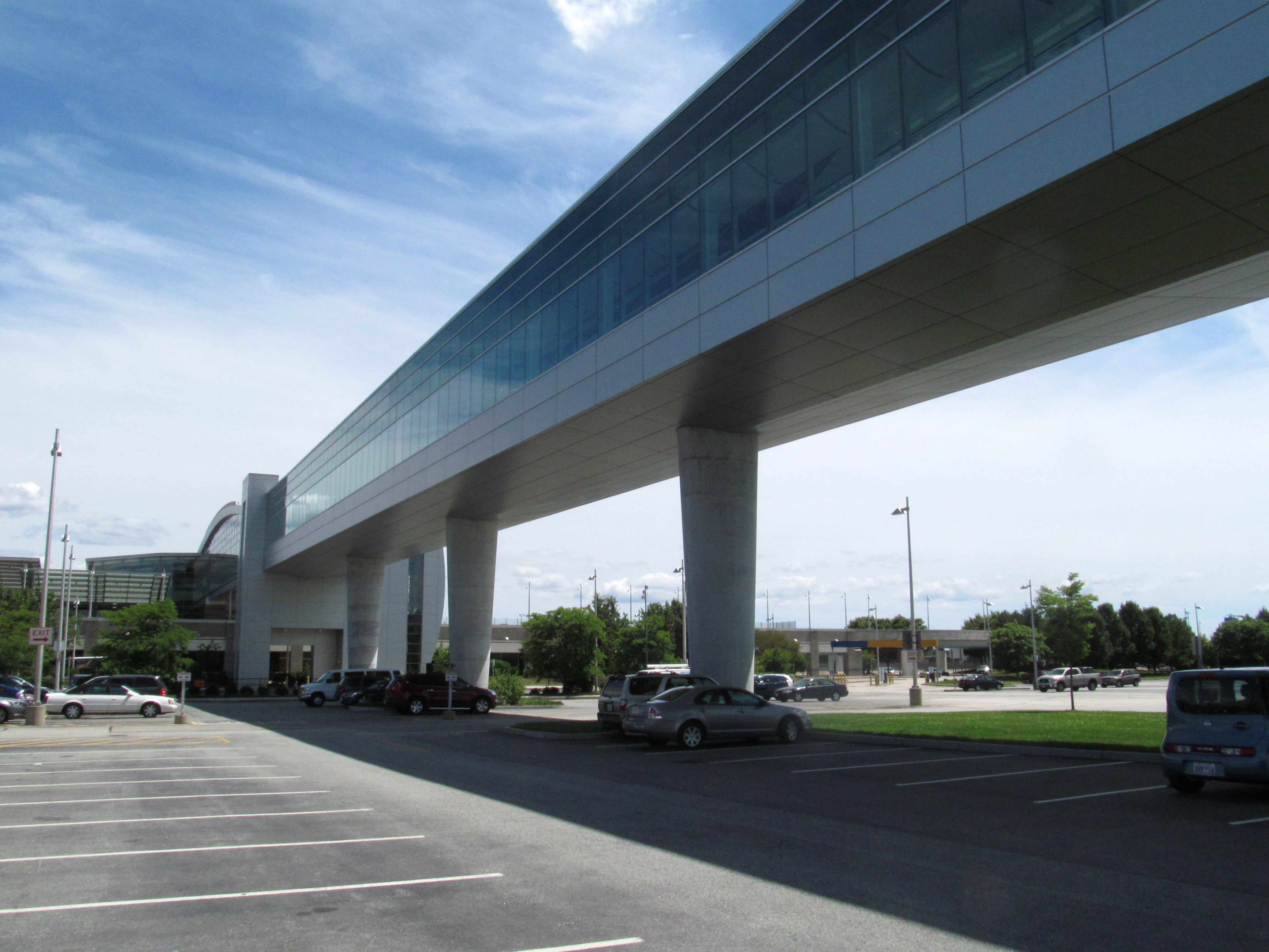 The Interlink skyway at T.F. Green Airport connects the main airport terminal with the new train station and rental car garage